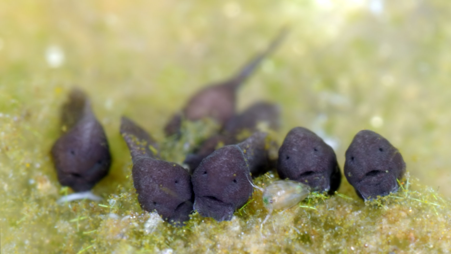 This image shows a few Common toad larvas (Bufo bufo). They lived a few centimeters below the water surface of a garden pond. Thanks to Andreas Böttger and his pond.